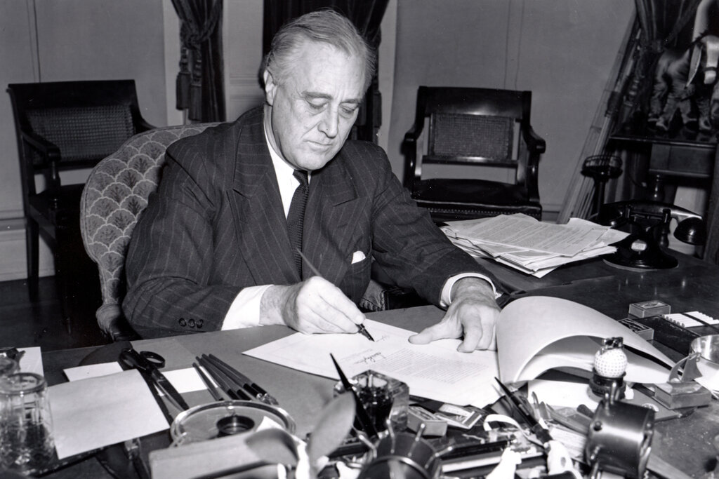 Used to be Image:3c28765t.jpg Description was taken from that page. TITLE: [President Franklin D. Roosevelt, half-length portrait, seated at desk, looking down, signing H.R. the lend-lease bill to give aid to Great Britain, China and Greece] CALL NUMBER: NYWTS - BIOG--Roosevelt, Franklin D., President--Signing Bills [item] [P&P] REPRODUCTION NUMBER: LC-USZ62-128765 (b&w film copy neg.) Publication may be restricted. For information see "New York World-Telegram & ...," ( MEDIUM: 1 photographic print. CREATED/PUBLISHED: 1941. NOTES